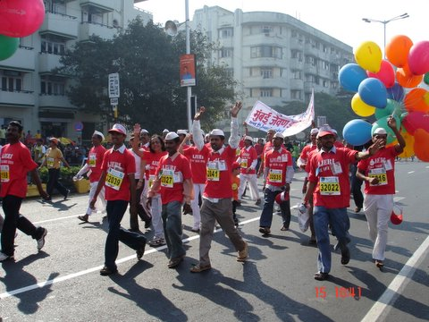 Original caption: Mumbai Marathon, Mumbai Dabbawalas Six Sigma Run. Daily Tiffin delivery system operated by them in Bombay, from subarban homes to downtown Bombay. On time and no mix up!